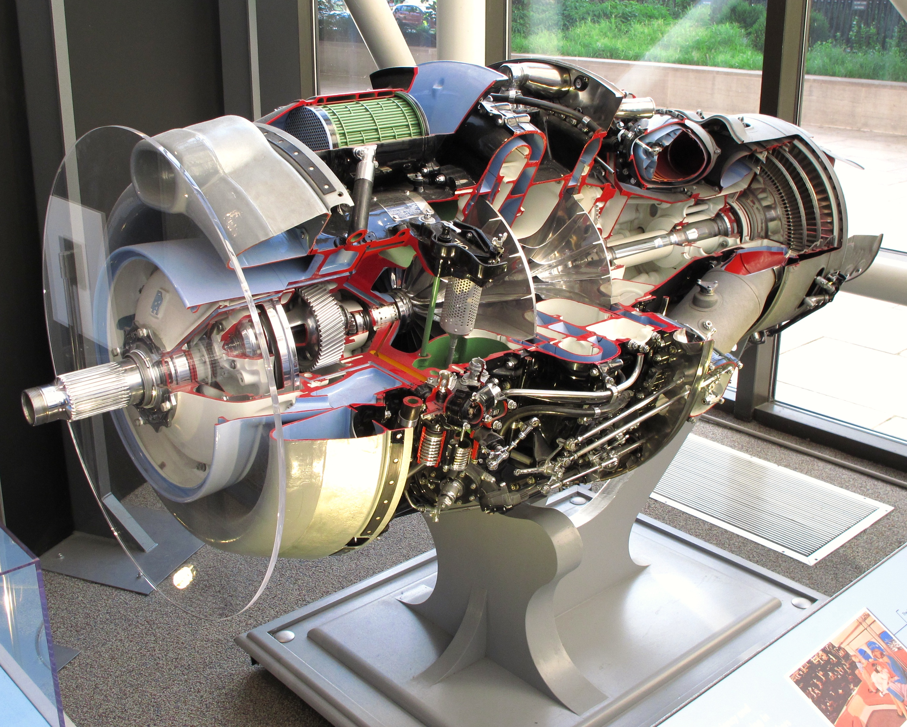 First introduced in 1948, the Rolls-Royce Dart turboprop combined the power of jet propulsion with the efficiency of propellers. It was widely used in the first generation of turboprop-powered aircraft, including the British Vickers Viscount and the Dutch Fokker F-27. The Dart enabled these and the other new airliners to lower airline operating costs and bring greater speed and comfort to passengers traveling on short-to-medium length routes. Type: Turboprop, 2-stage centrifugal flow compressor, 7 combustion chambers, 3-stage axial flow turbine. Power: 1,815 ehp at 15,000 rpm Weight: 567 kg (1,250 lb) Specific fuel consumption: 0.317 kg/ehp/hr (0.700 lb/ehp/hr) Manufacturer: Rolls-Royce Ltd., Derby, England, ca. 1970 Picture taken at the "National Air and Space Museum", Washington D.C, USA